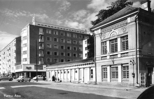 Julin's block in Turku in 1960s, before demolished by Stockman.